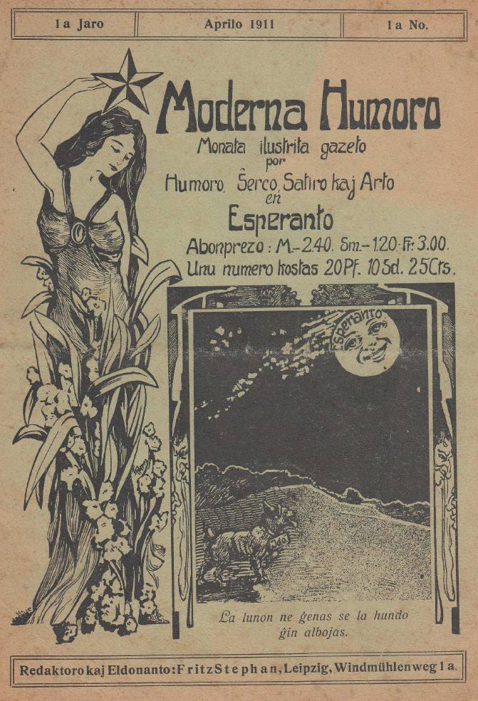 Cover of the journal "Moderna Humoro" of 1911 with jokes and comics in Esperanto